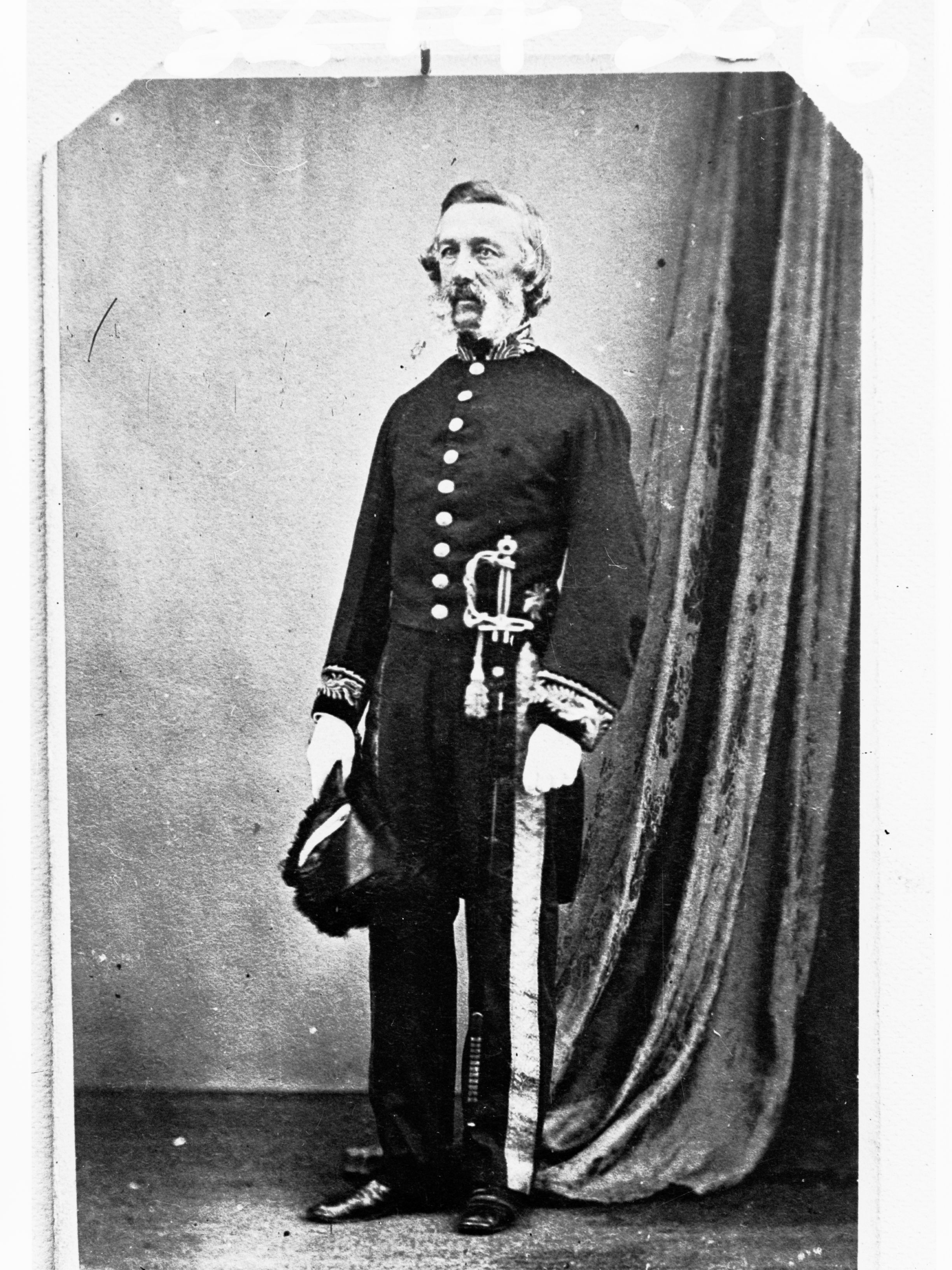 Microfiche incorrectly states this is Colonel O'Keefe. - This is Dr Wyatt, see label on negative. See 'Australian Dictionary of Biography', Vol. 2, p626. (G Brooks) - Dr Wyatt was also Honorary Colonial Botanist, Colonial Surgeon, Inspector of Schools and original committee member of the Botanic Gardens. (GB amended, Stuart Nicol RAA)